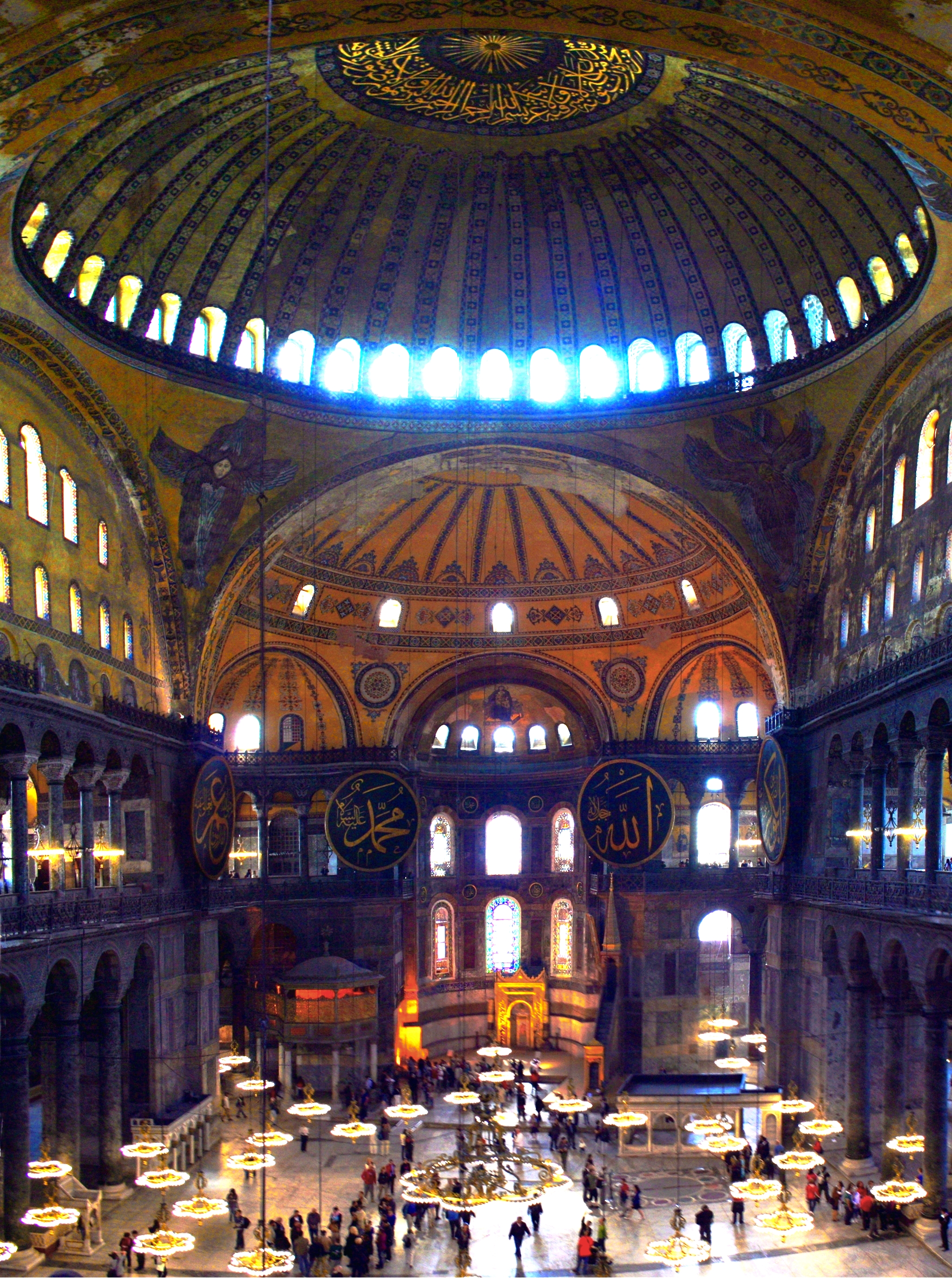 Interior of Aya Sofya / Hagia Sophia (Istanbul) from gallery